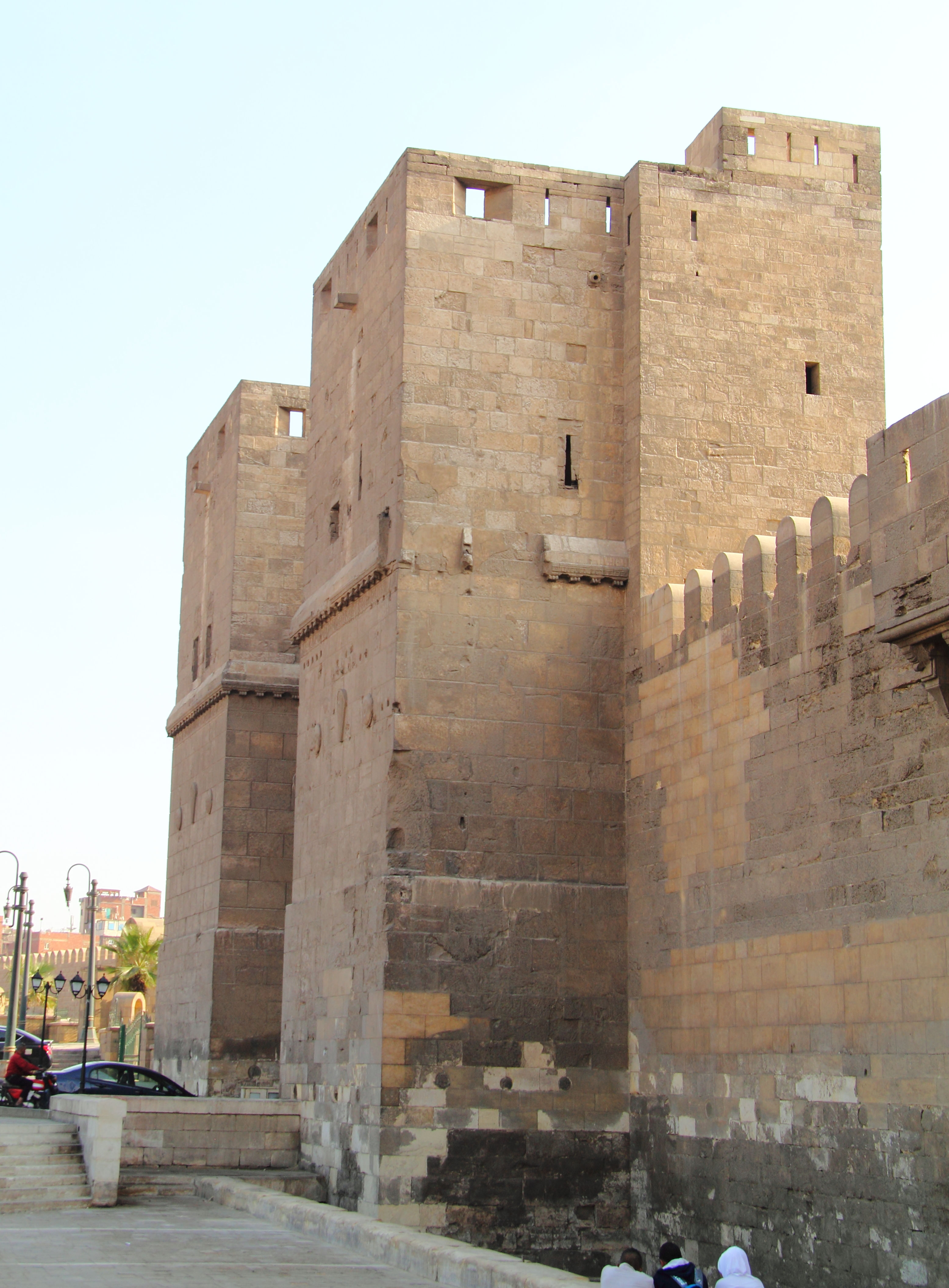 Cairo, Egypt: the medieval city gate Bab al-Nasr (Cairo)